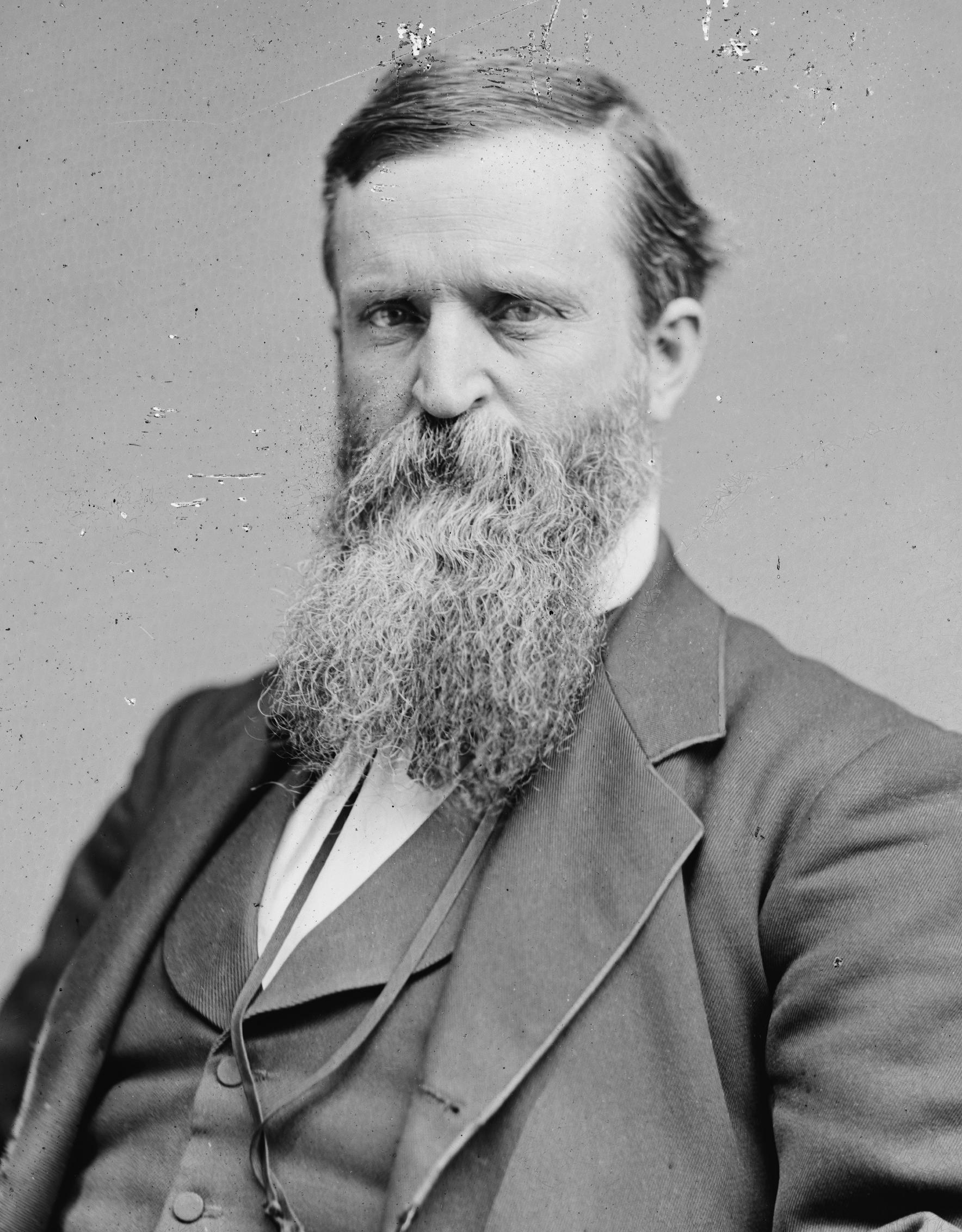 James Weaver.